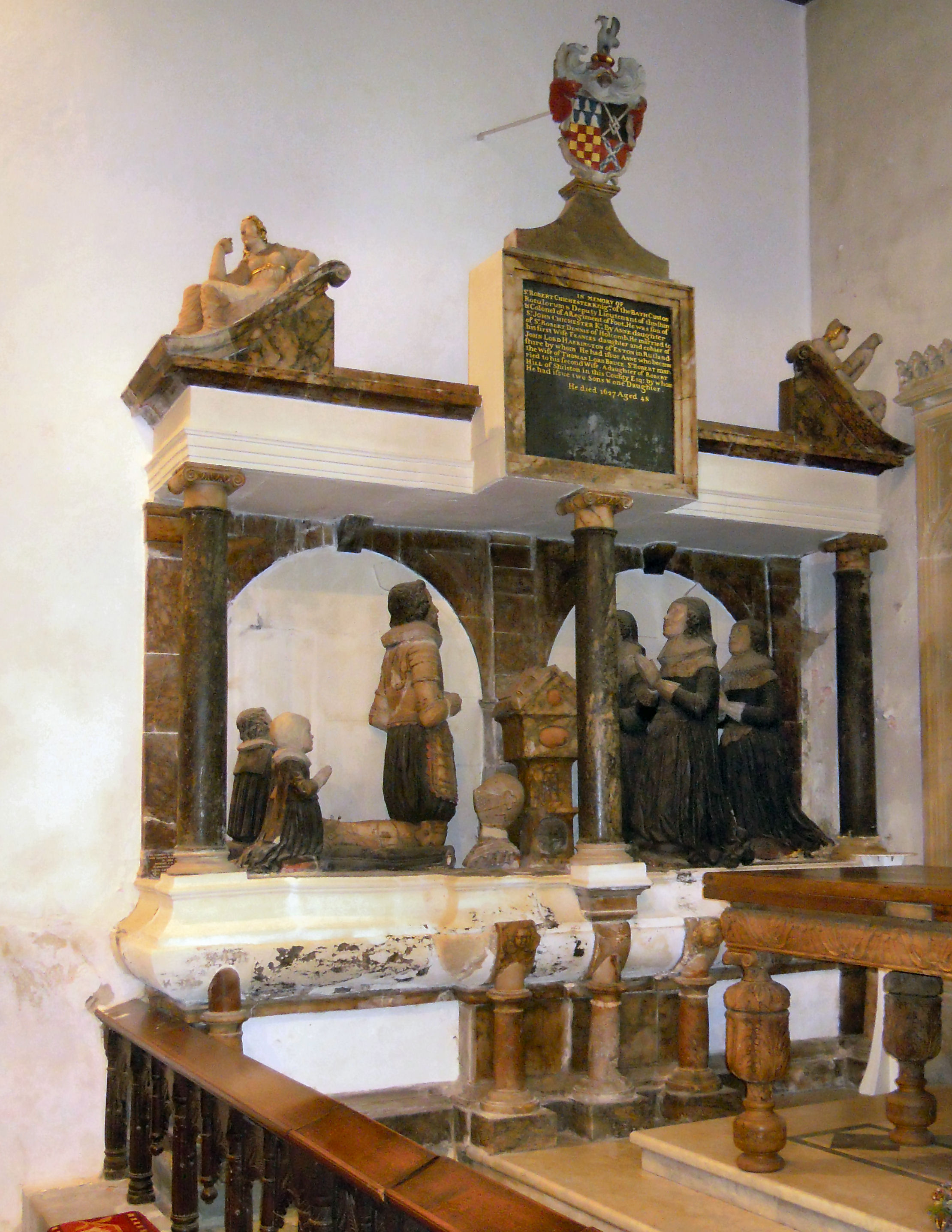 The elaborate monument to Sir Robert Chichester (died 1627) in the Church of St Mary the Virgin in Pilton in Barnstaple, Devon